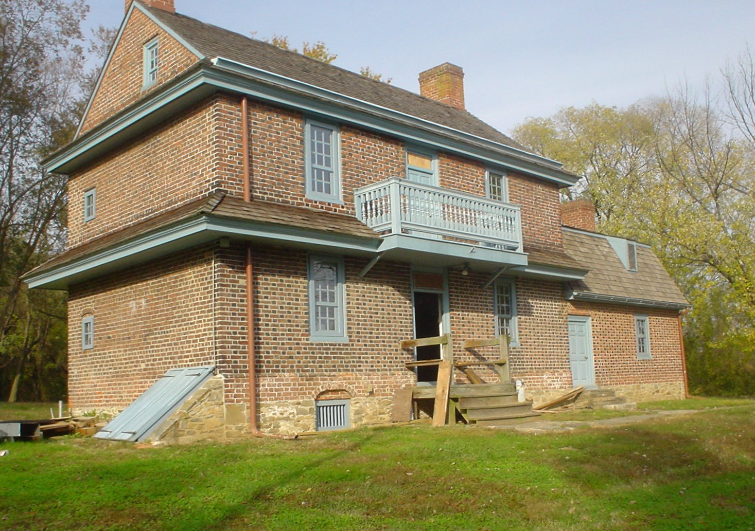 Morton Morton House - not to be confused with Mortonsen Cabin nearby. Both on NRHP. On Tinicum Island, PA.